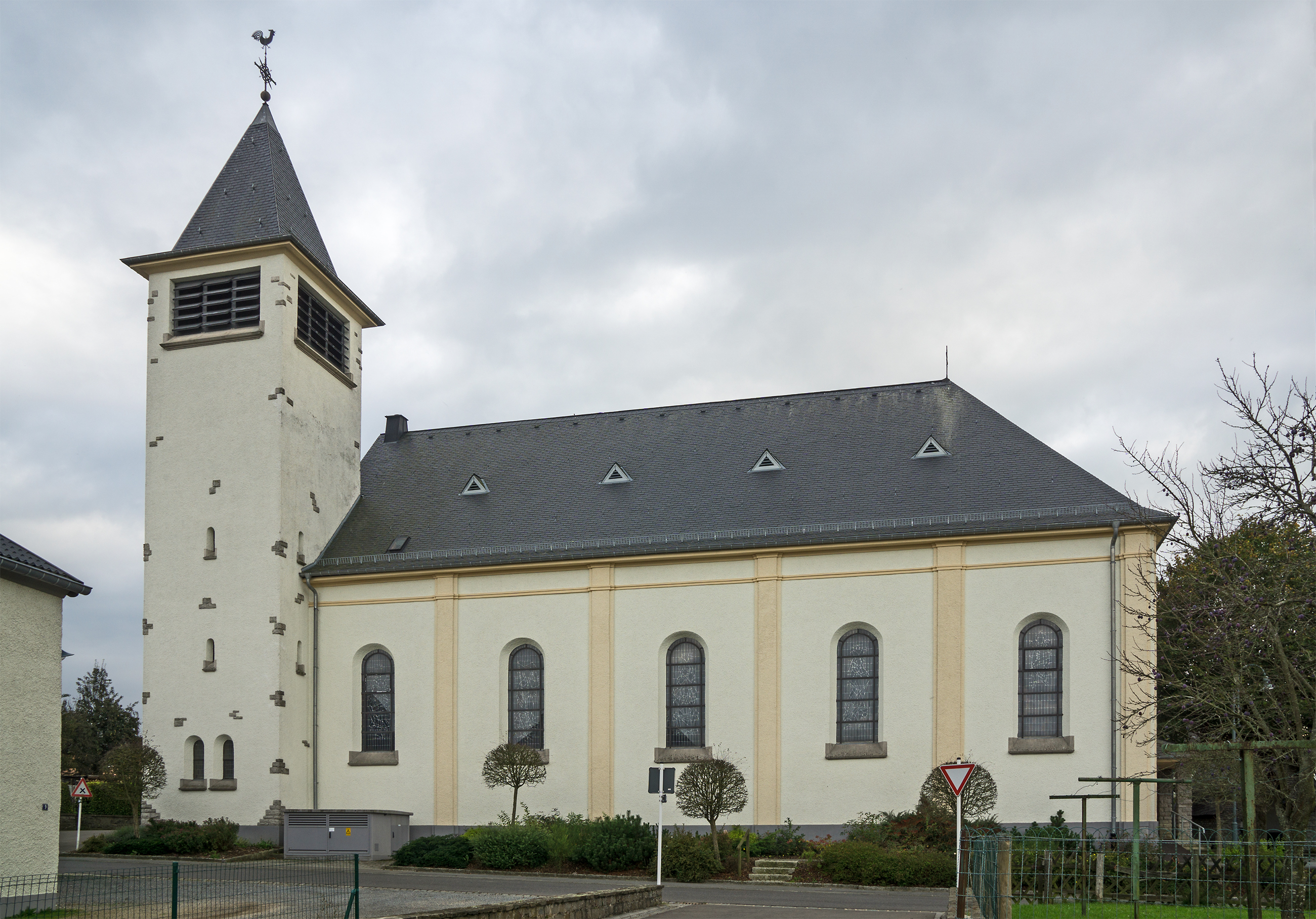 Church of Heinerscheid